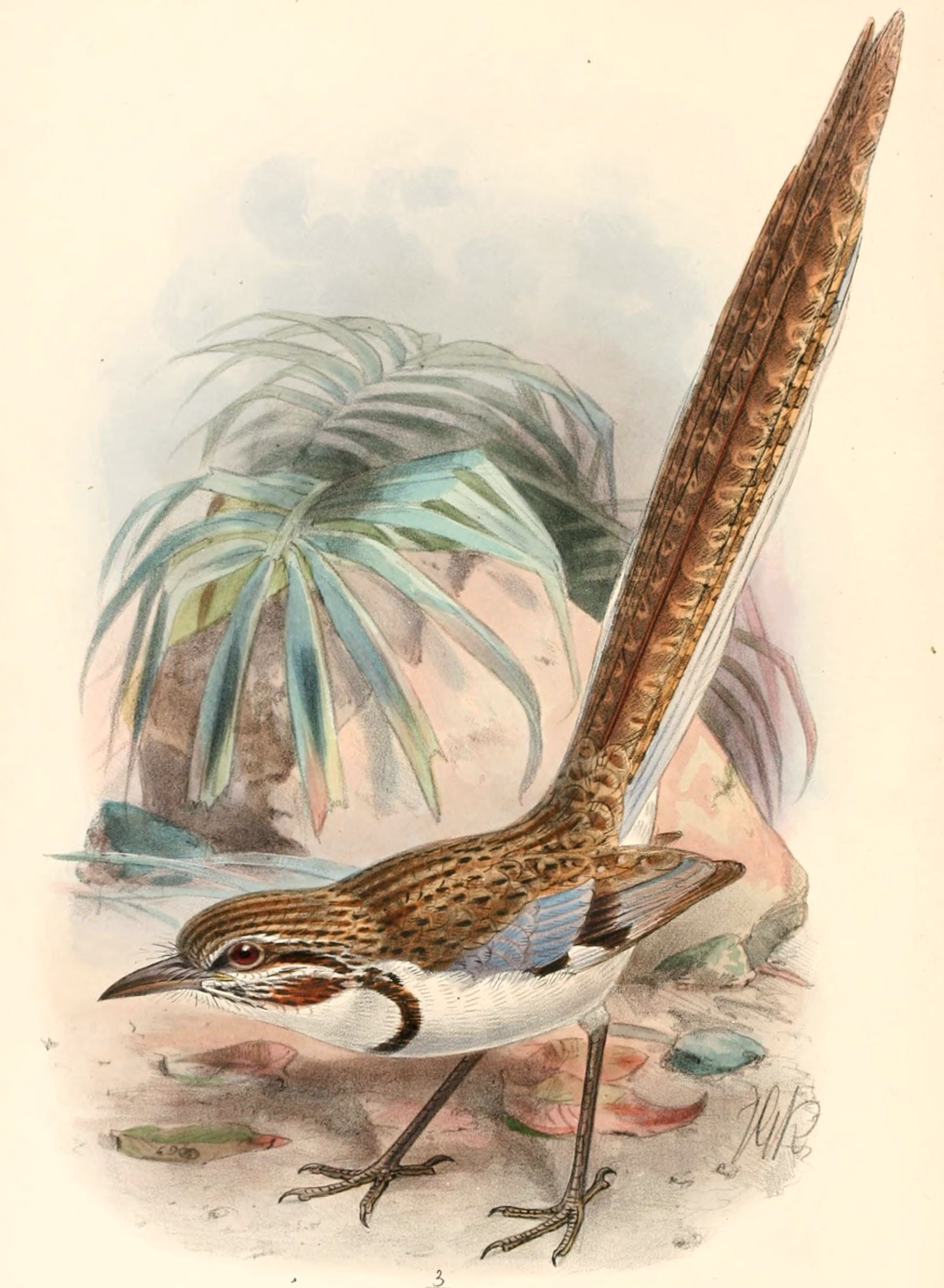 « Uratelornis chimaera » = Uratelornis chimaera (Long-tailed Ground Roller)